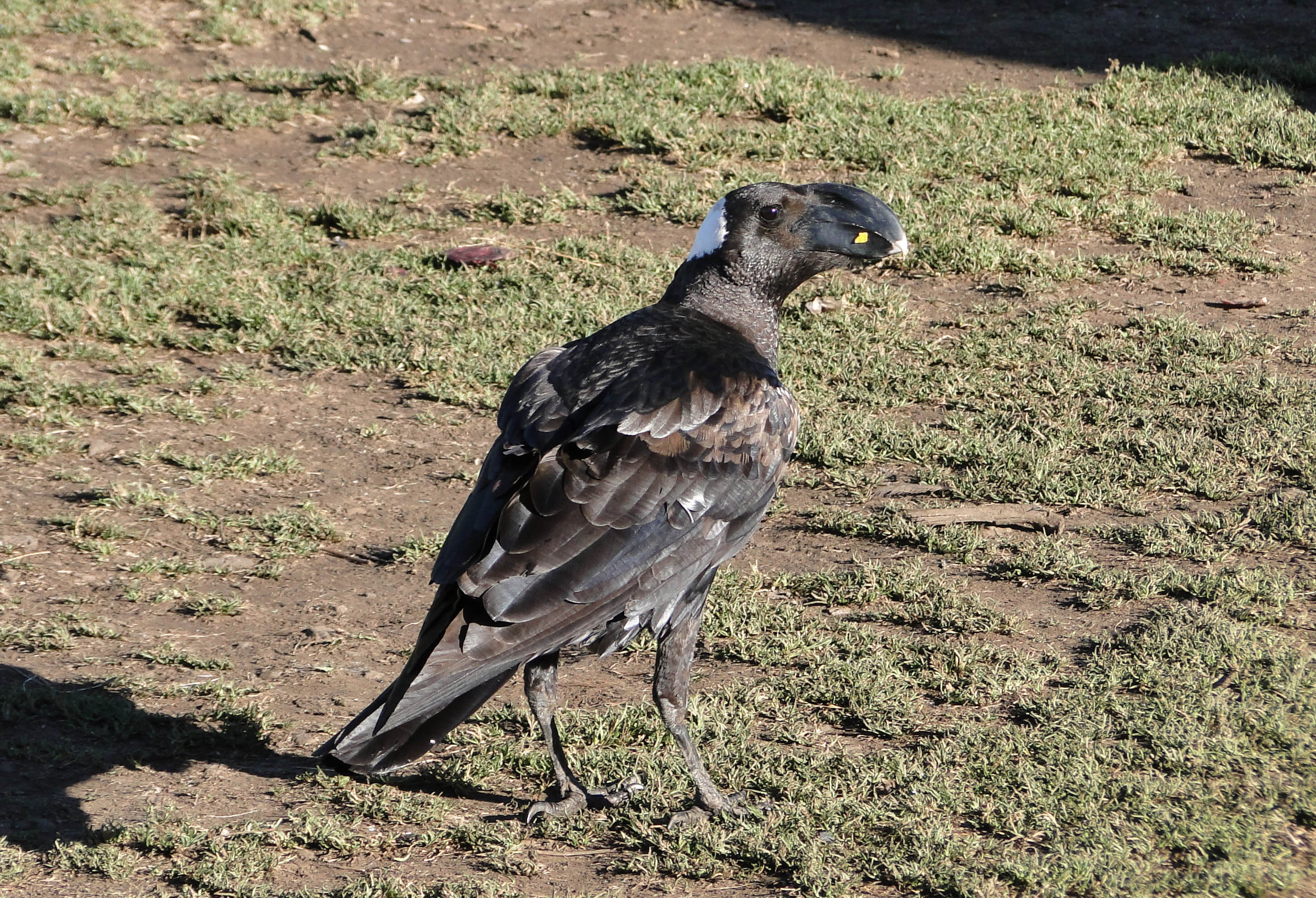 A Thick-billed Raven (corvus crassirostris) near Sankaber Camp in the Simien Mountains National Park, Ethiopia